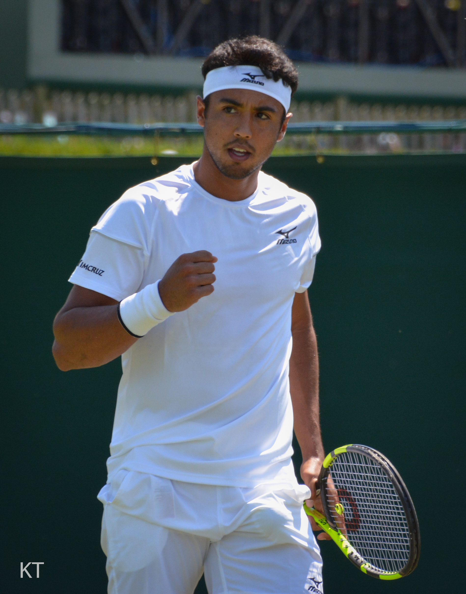 Day 1 of Wimbledon qualifying, Roehampton, June 2018